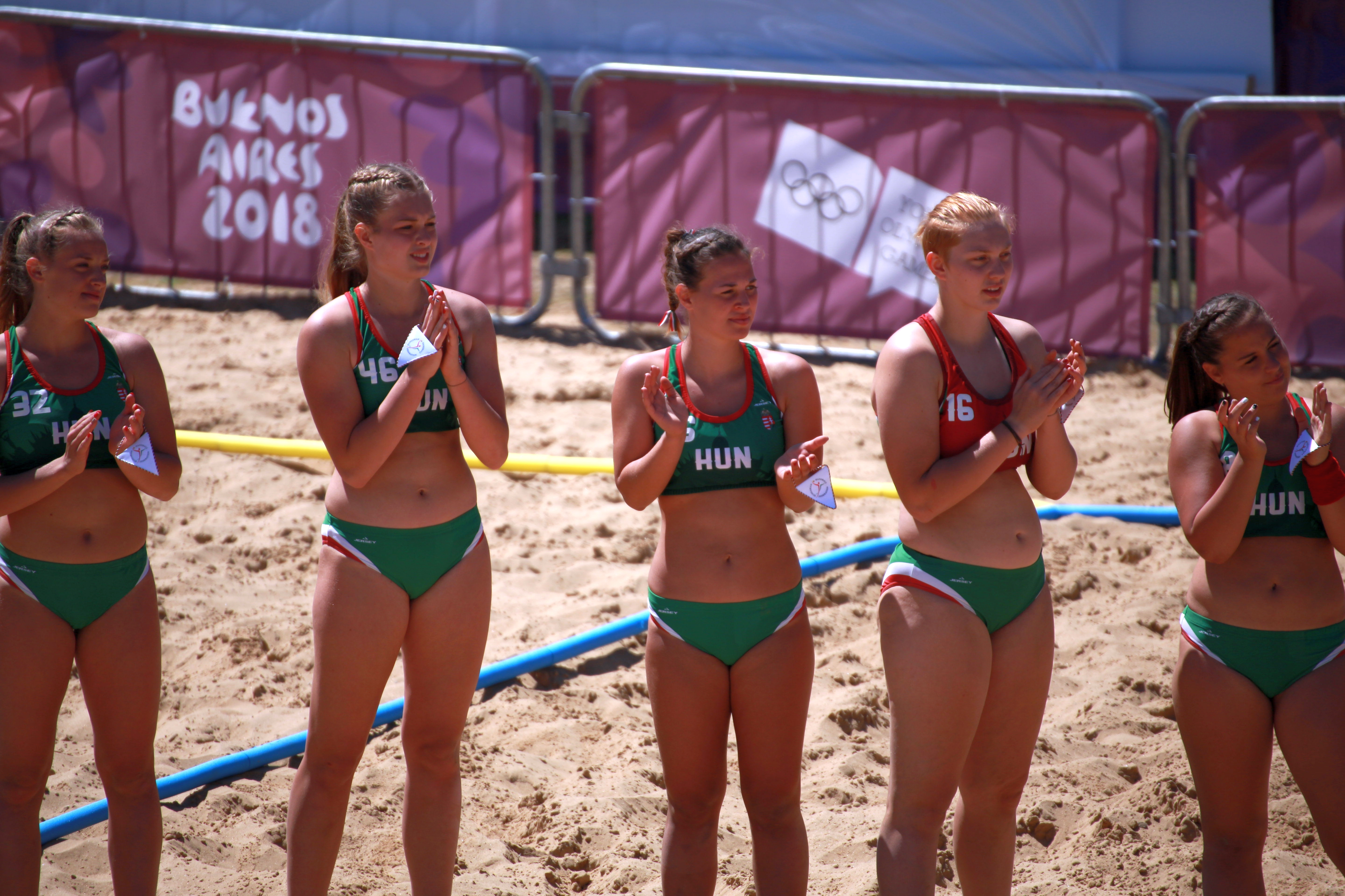 Beach handball at the 2018 Summer Youth Olympics at 10 October 2018 – Girls Preliminary Round Group A – Hungary-Chinese Taipei 2:0